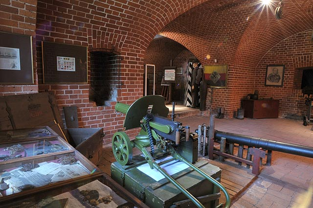 Fortes Swinoujscie; Fort's Gerhard